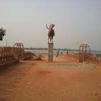 boating park in miryalaguda